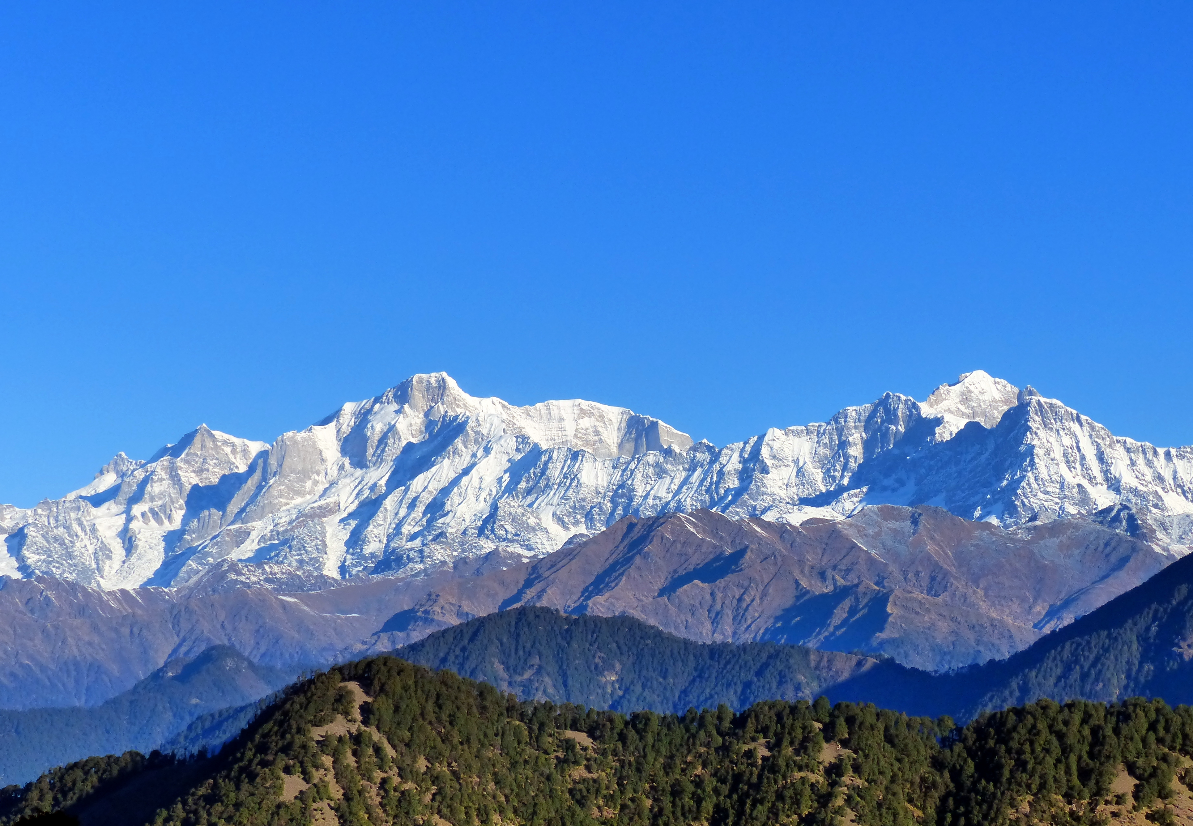 Uttarakhand (Hindi: उत्तराखण्ड, Sanskrit:उत्तराखण्डराज्यम्), formerly Uttaranchal, is a state in the northern part ofIndia. Uttarakhand is mainly known for its natural beauty of the Himalayas, the Bhabhar and the Terai. On 9 November 2000, this 27th state of the Republic of India was carved out of the Himalayan and adjoining northwestern districts of Uttar Pradesh. Two important rivers of India originate in the region, the Ganga at Gangotri and the Yamuna at Yamunotri. It is home to many holy Hindu temples and pilgrimage centres found throughout the state. The natives of the state are generally called either Garhwali or Kumaoni depending on their place of origin. According to the 2011 census of India, Uttarakhand has a population of about 10 million.